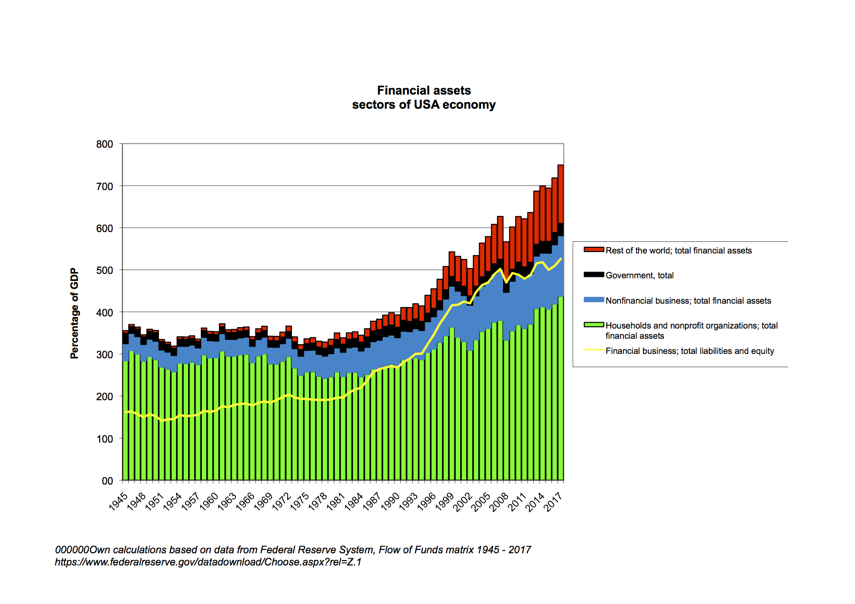 Financial assets of sectors of USA economy, 1945 to 2009